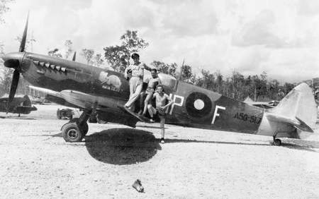 The pilot of a No. 79 Squadron RAAF Spitfire aircraft (standing on the wing wearing uniform) and two members of the squadron's ground crew at Morotai